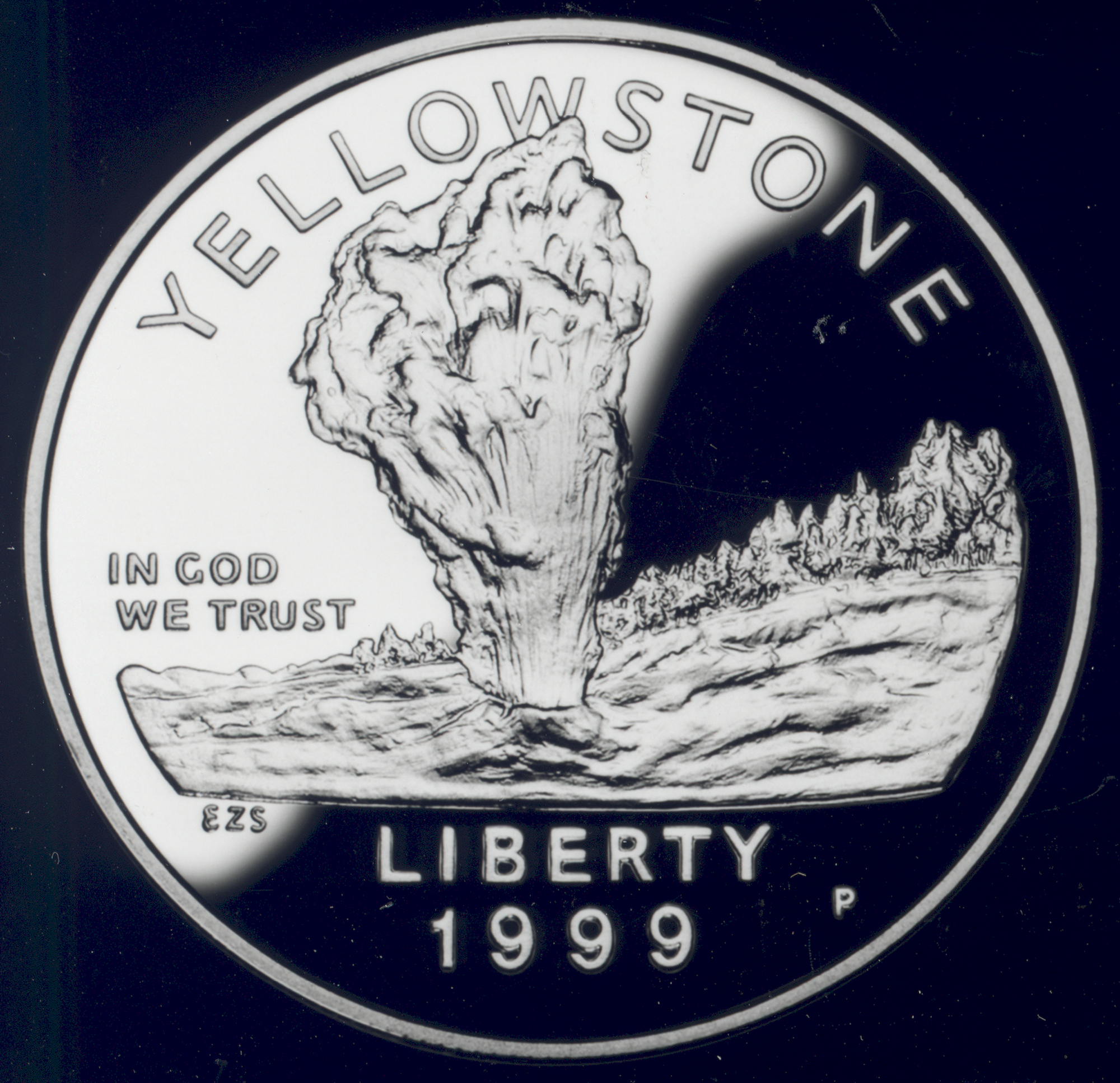 United States silver dollar commemorative coin authorized to commemorate the 125th anniversary of the establishment of Yellowstone, the country's first national park.